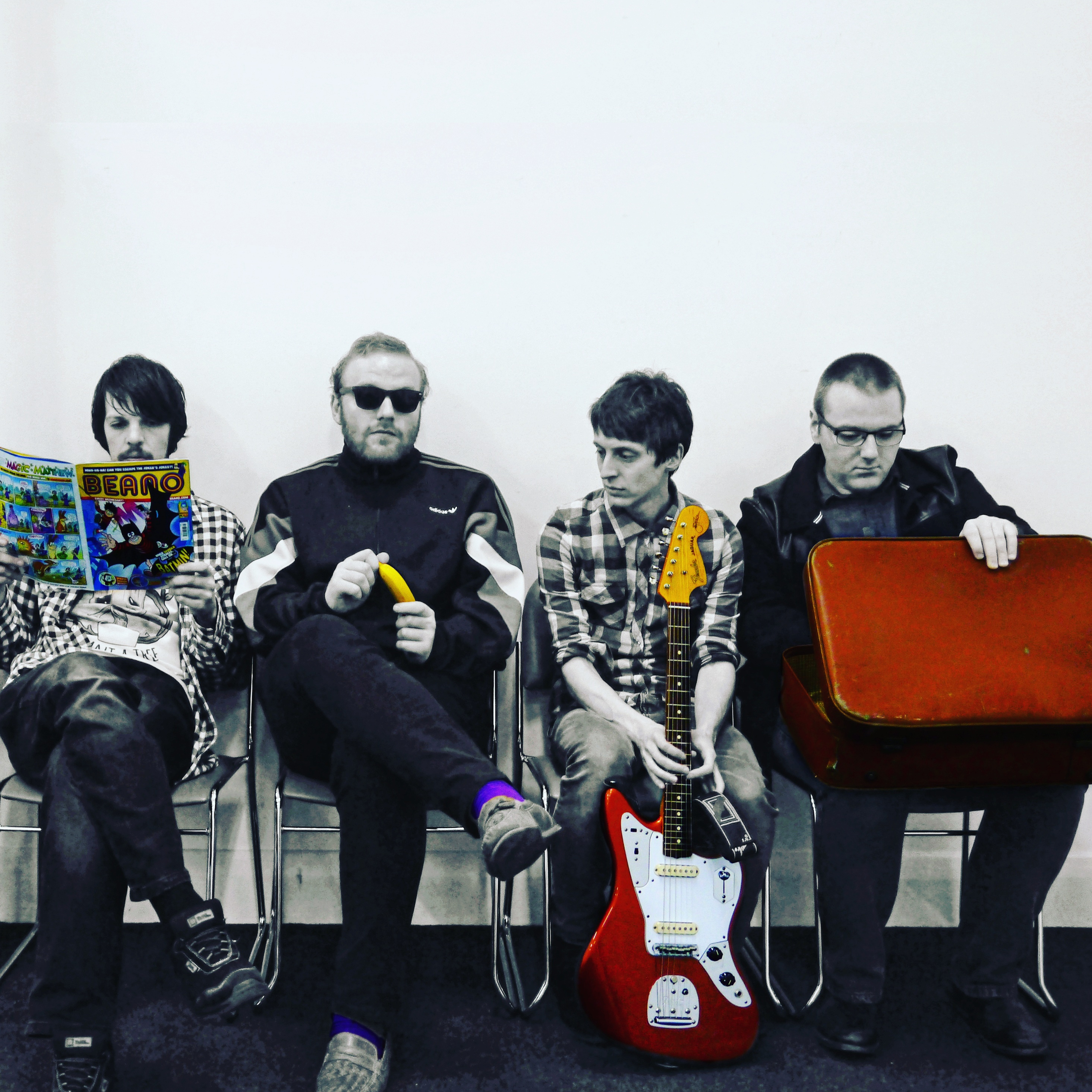 Goole band Sandra's Wedding; L-R Tom Hill, Joe Hodgson, Jonny Hughes, Luke Harrison.